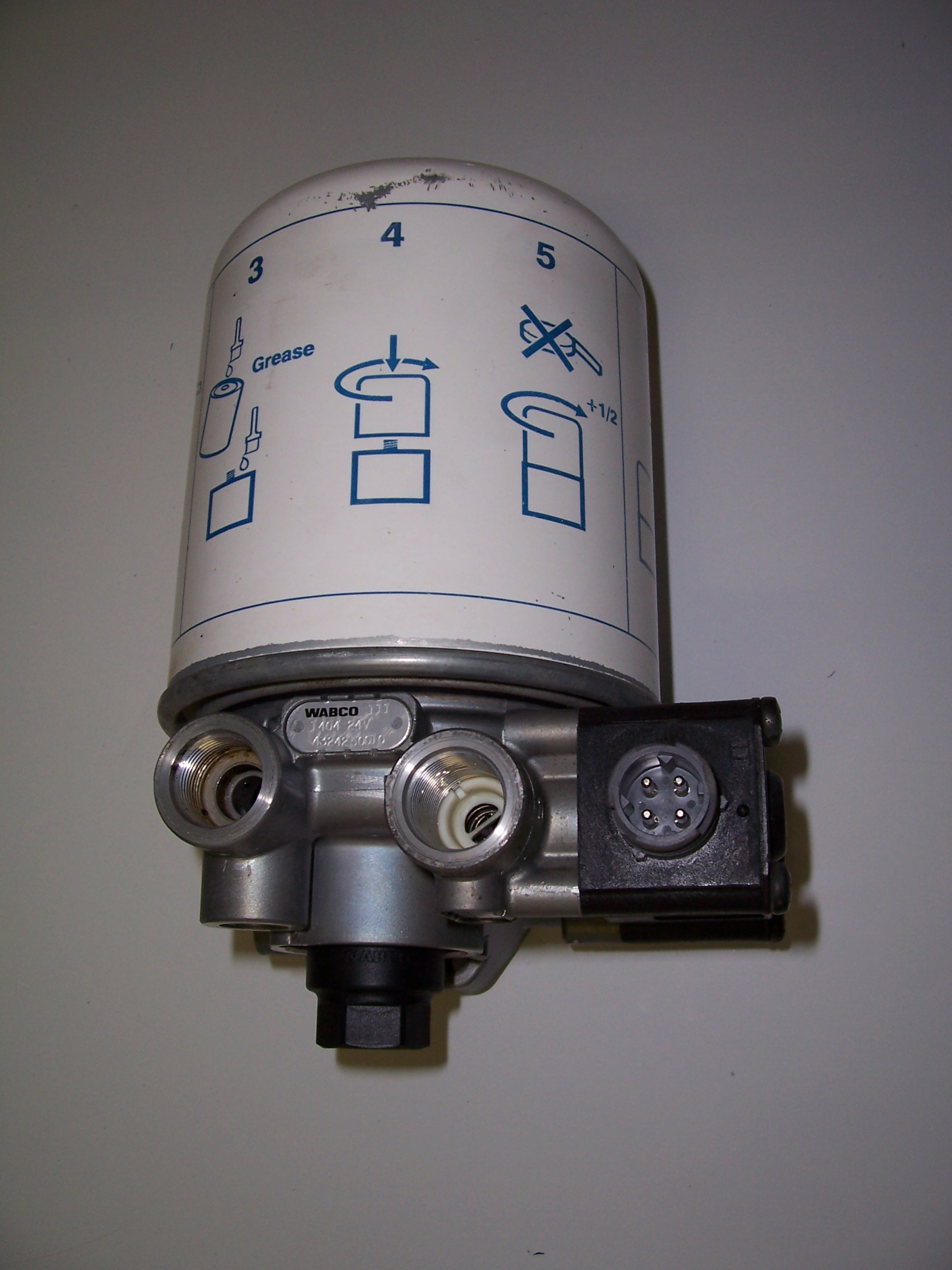 truck air system air dryer with electronic governor and spin-on replaceable desiccant cartridge